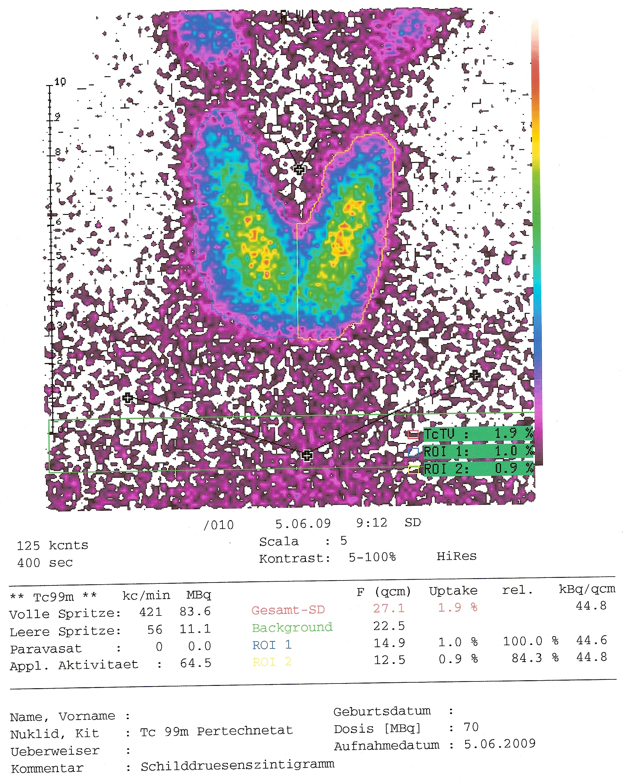 Scintigraphy of my thyroid.